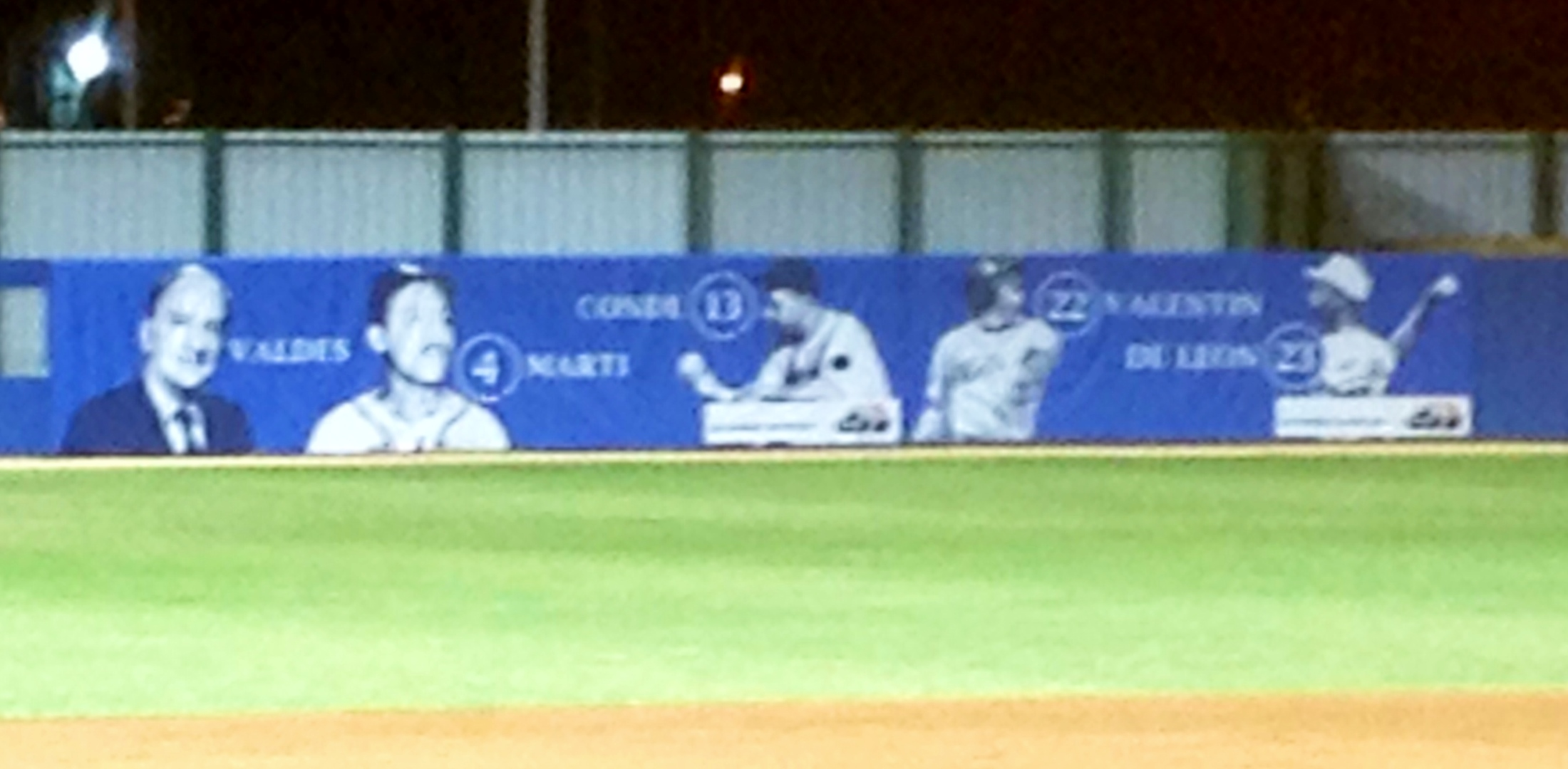 Portraits of Alfonso Valdés Cobián, the founder of the Indios de Mayagüez baseball team, and the team's players whose numbers have been retired. These potraits are located at the Isidoro García Baseball Stadium's left field fence.